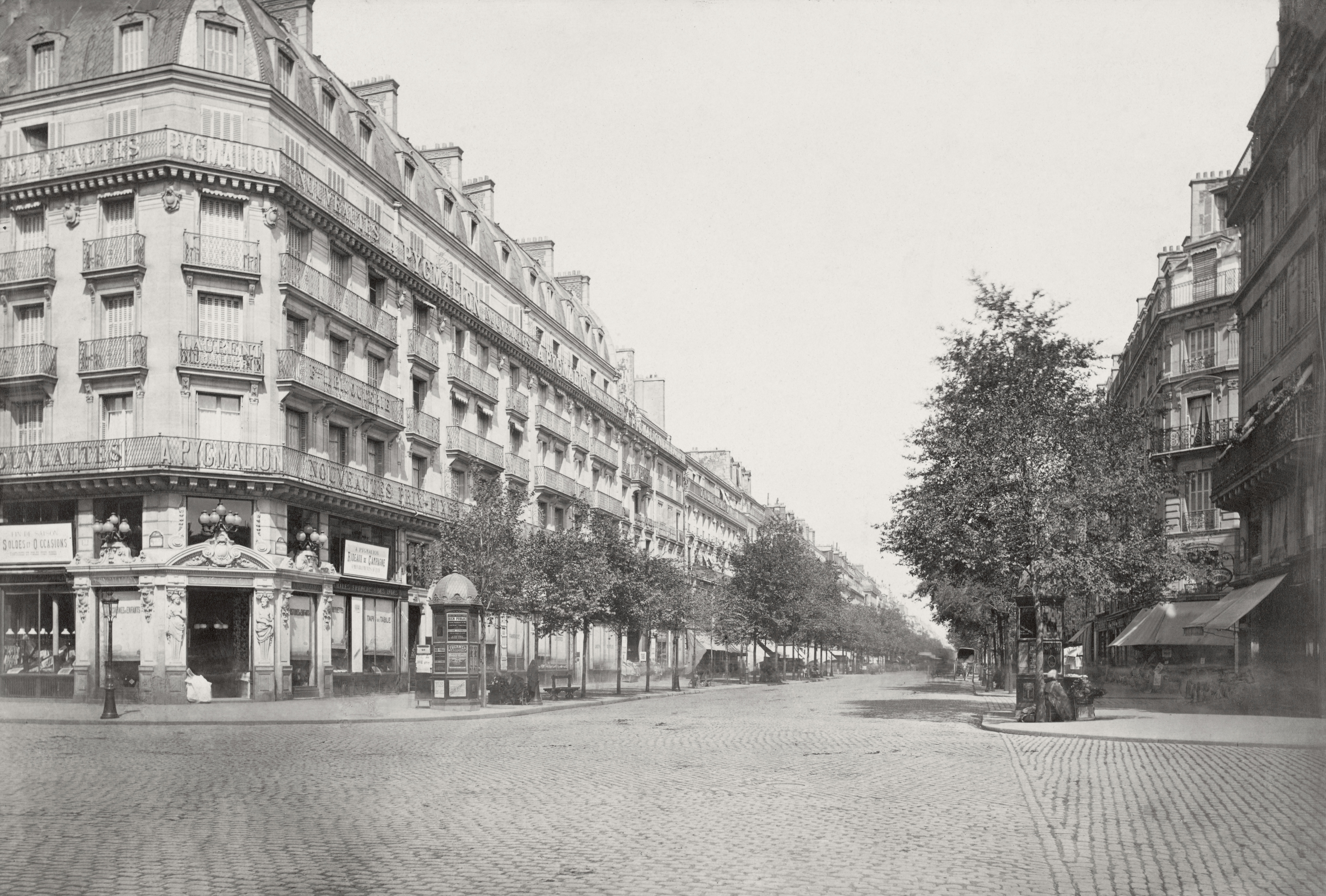 Looking from intersection along cobbled tree lined street, corner building with classical style decoration on pilasters flanking corner door, the word Pygmalion above door, wrought iron balconettes at windows.